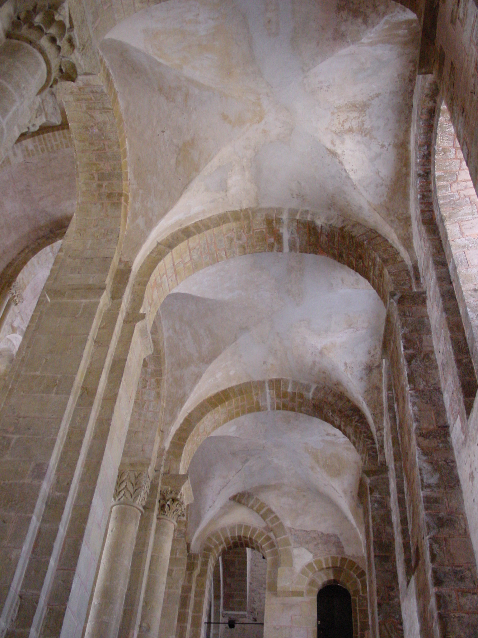 Groin vault of aisle of abbey church in Conques